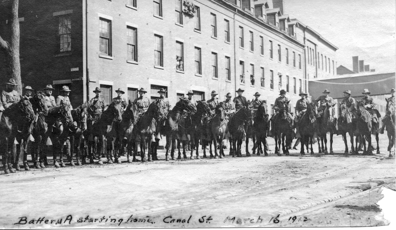 Battery A of the Massachusetts National Guard starting home, Canal St. March 16, 1912 during the Lawrence textile strike. The guard soldiers are mounted in a row on their horses in front of a building.